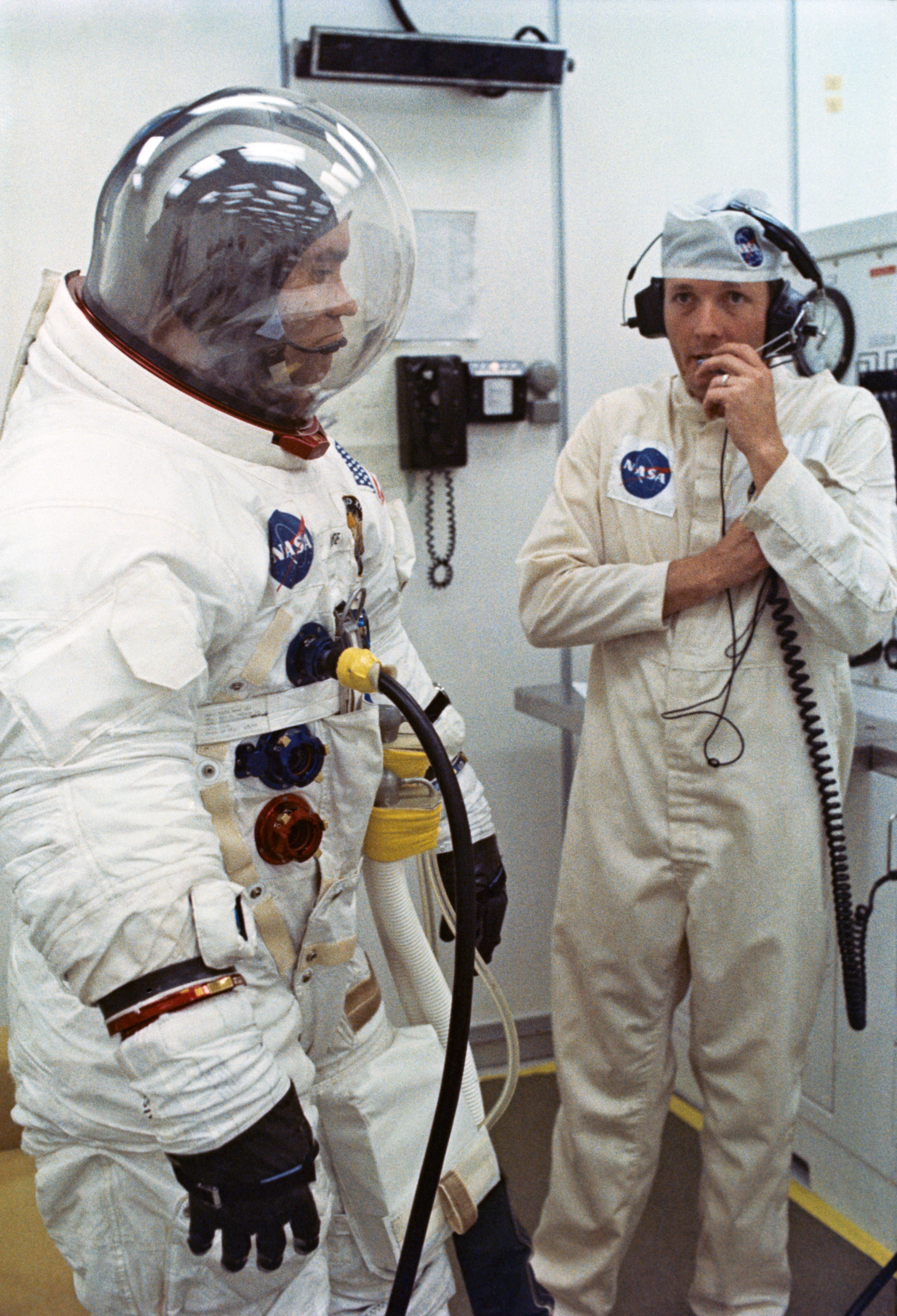 NASA astronaut Fred W. Haise, Jr., Apollo 13 Lunar Module Pilot (LMP), talks with a space suit technician while suiting up for the Apollo 13 mission at Kennedy Space Center on April 11, 1970.